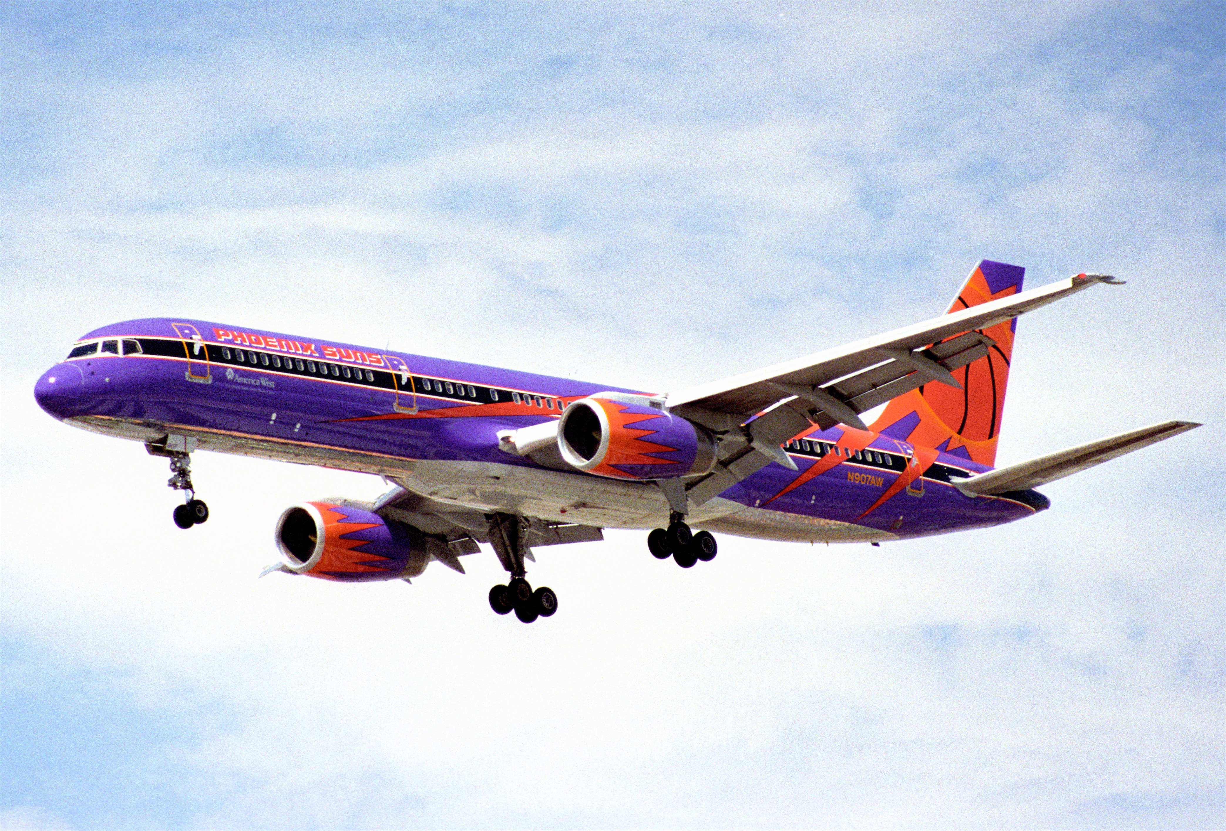 America West Airlines Boeing 757-225; N907AW@LAS;01.08.1995